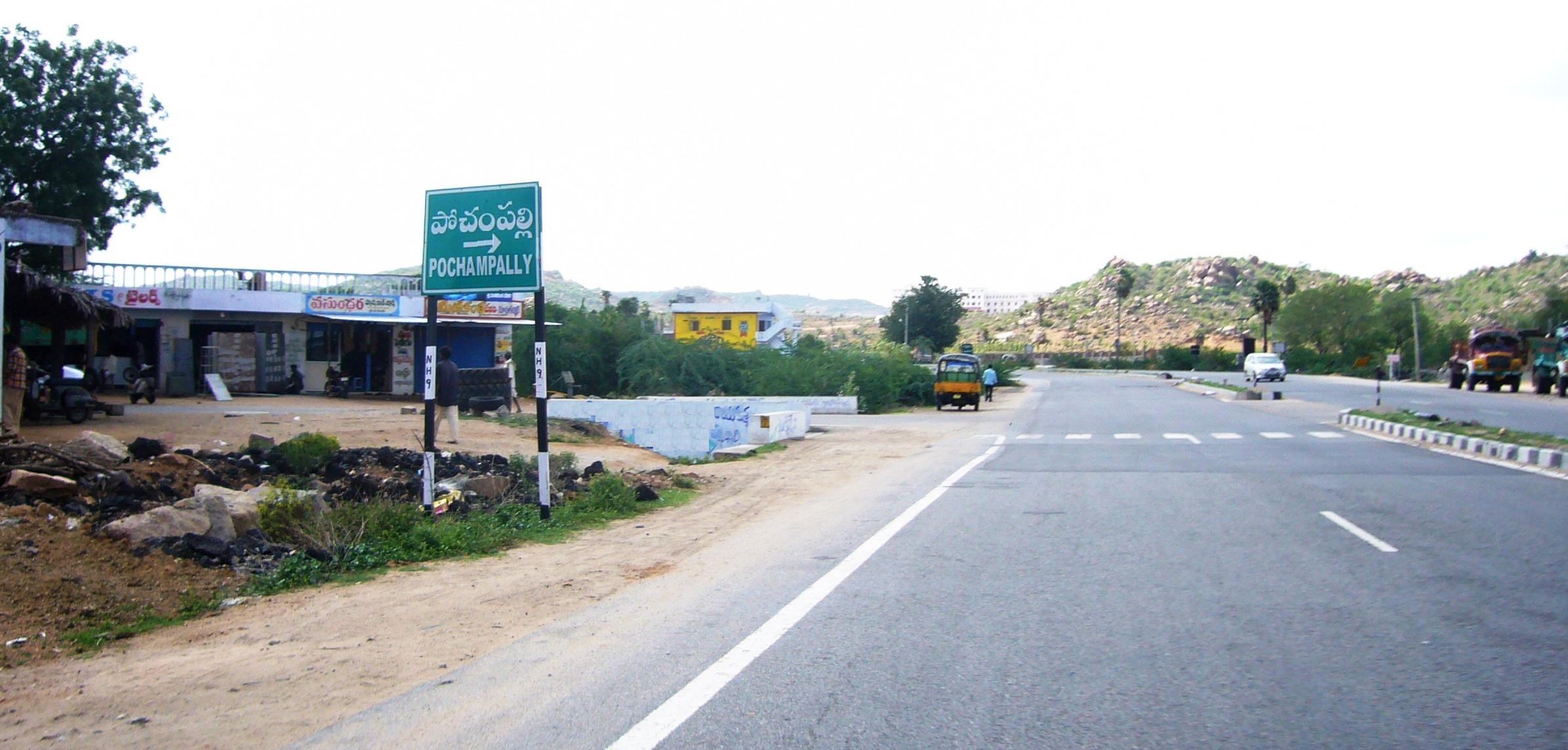 Bhoodhan Pochampally Sign Board on National Highway 9